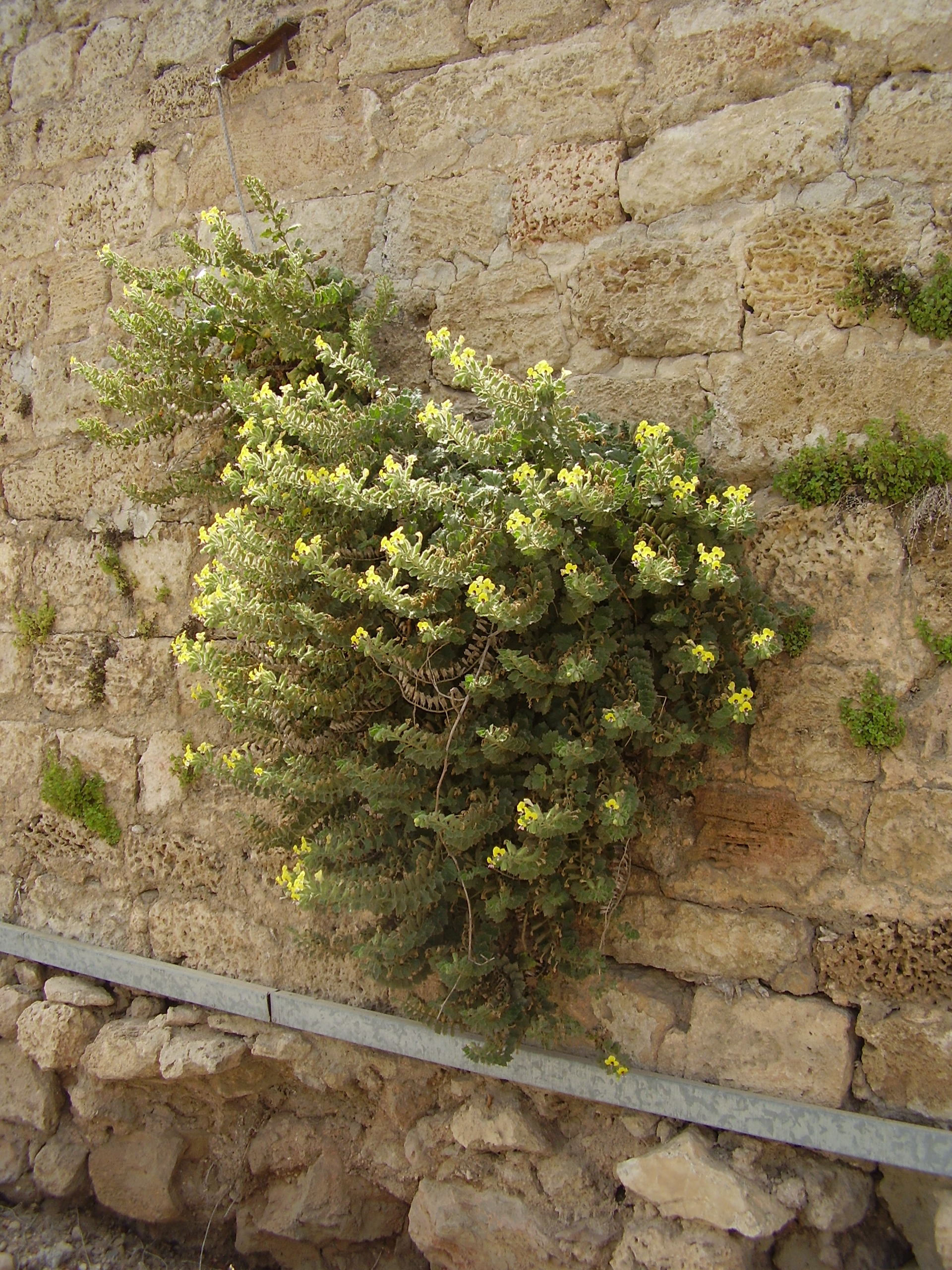 Golden Henbane (Hyoscyamus aureus) on the external wall of the Shuni fortress near Binyamina, Israel.